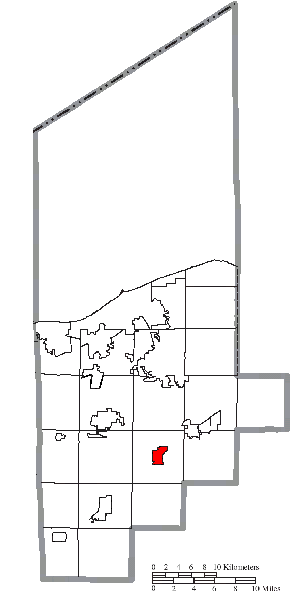 Map of the municipal and township boundaries of Lorain County, Ohio, United States, as of the 2000 census, with the location of the village of LaGrange highlighted. Township borders are shown only in unincorporated areas in order to differentiate incorporated and unincorporated areas more clearly.